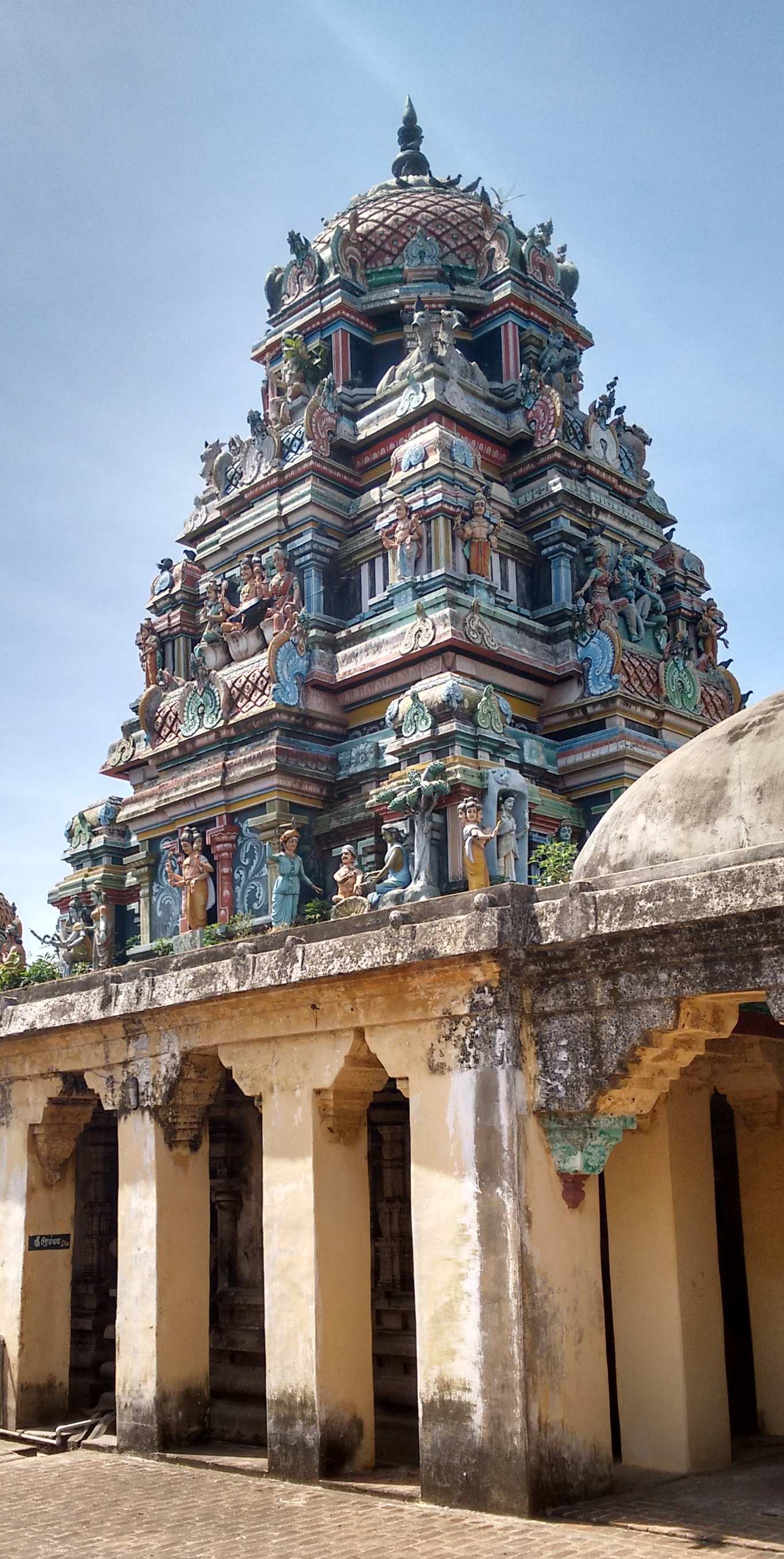 திருவாழ்கொளிப்புத்தூர் மாணிக்கவண்ணார் கோயில் Tiruvalkolipputtur Manickavannar Temple